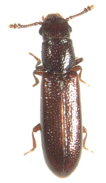 adult Rhizonium antiquum